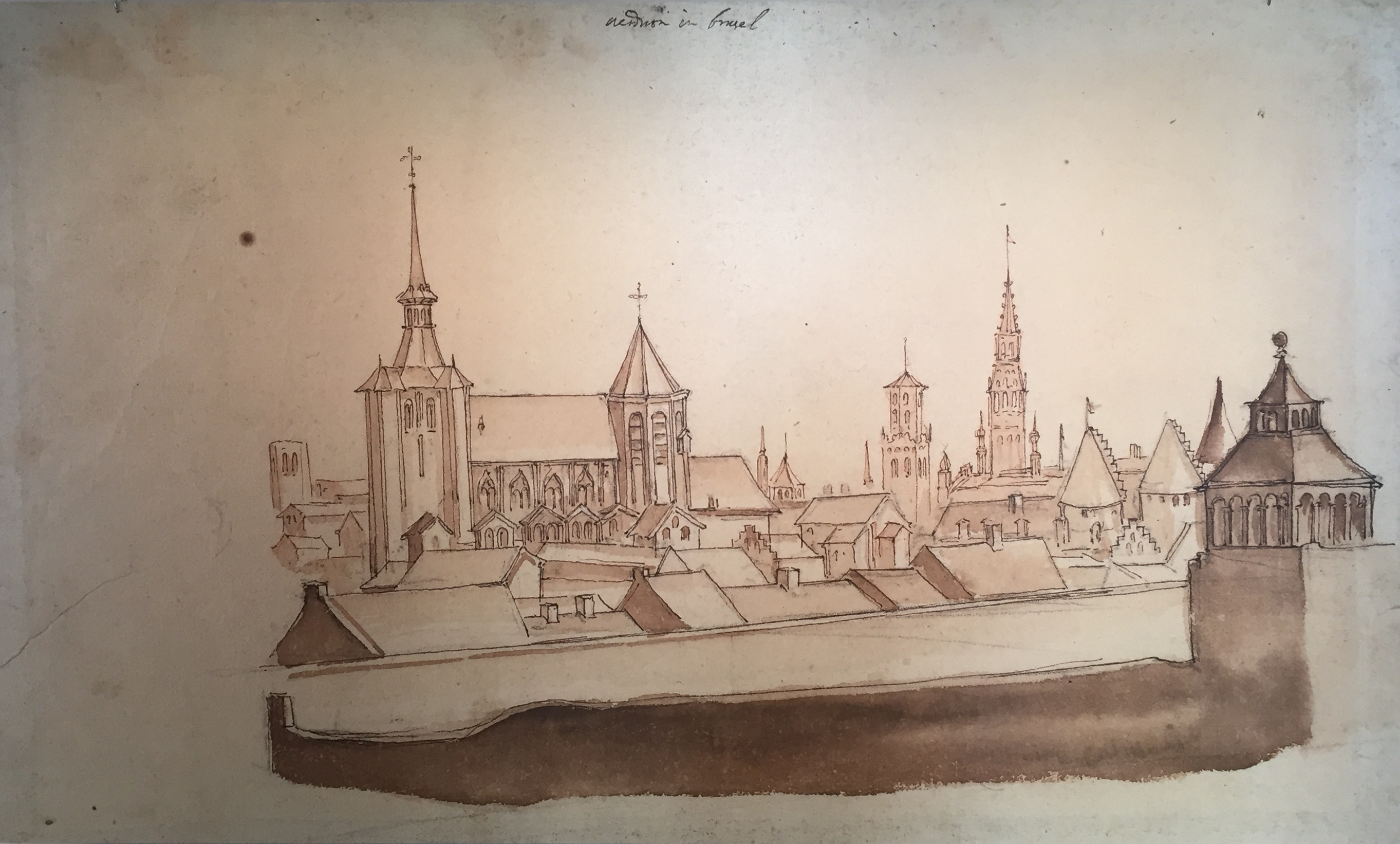 Brussels landscape by Remigio Cantagallina, ca. 1612.